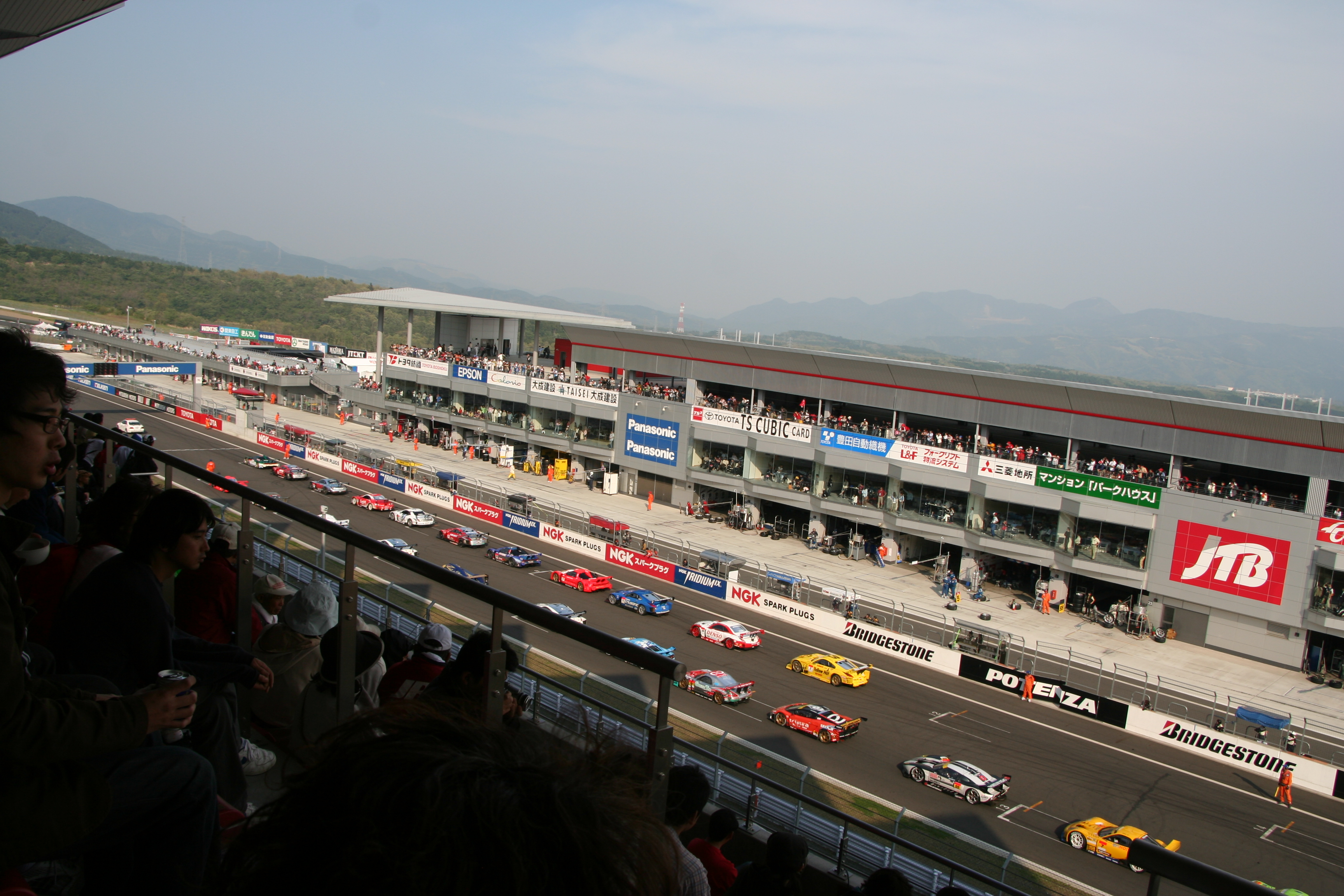 2008 Super GT Fuji Speedway (May)